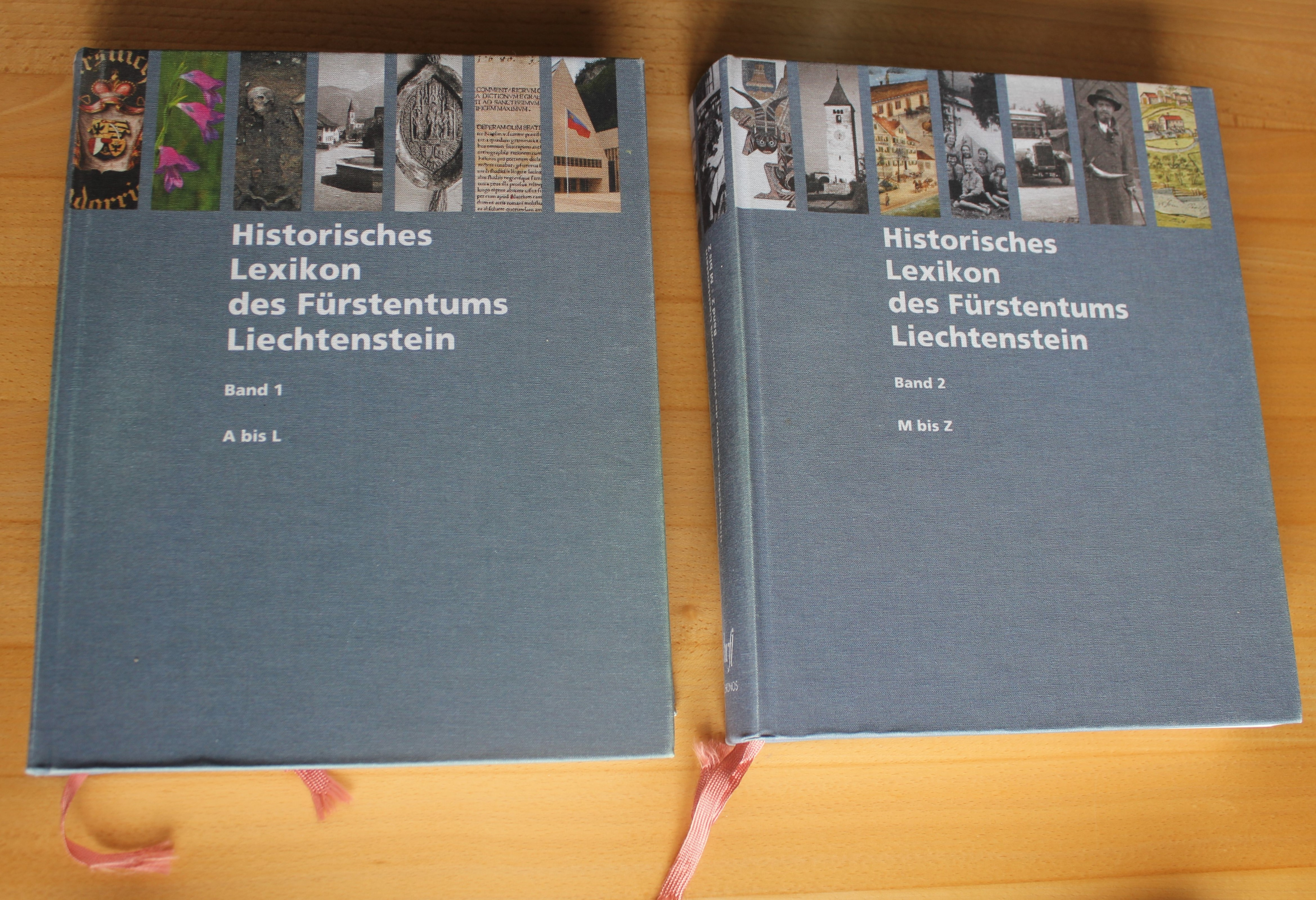 Book cover of the Historical Dictionary of the Principality of Liechtenstein, volume 1 & 2